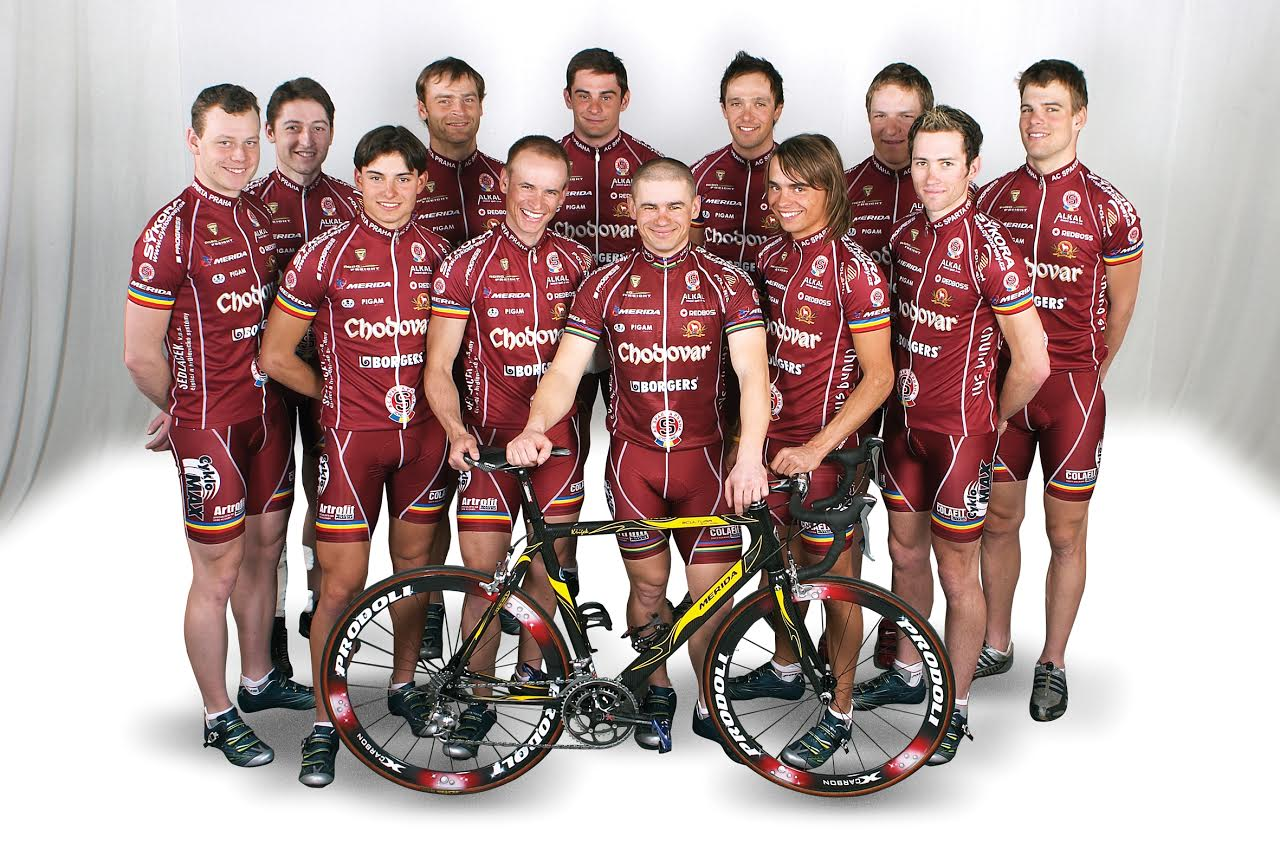 Team AC Sparta Praha Cycling (2006)